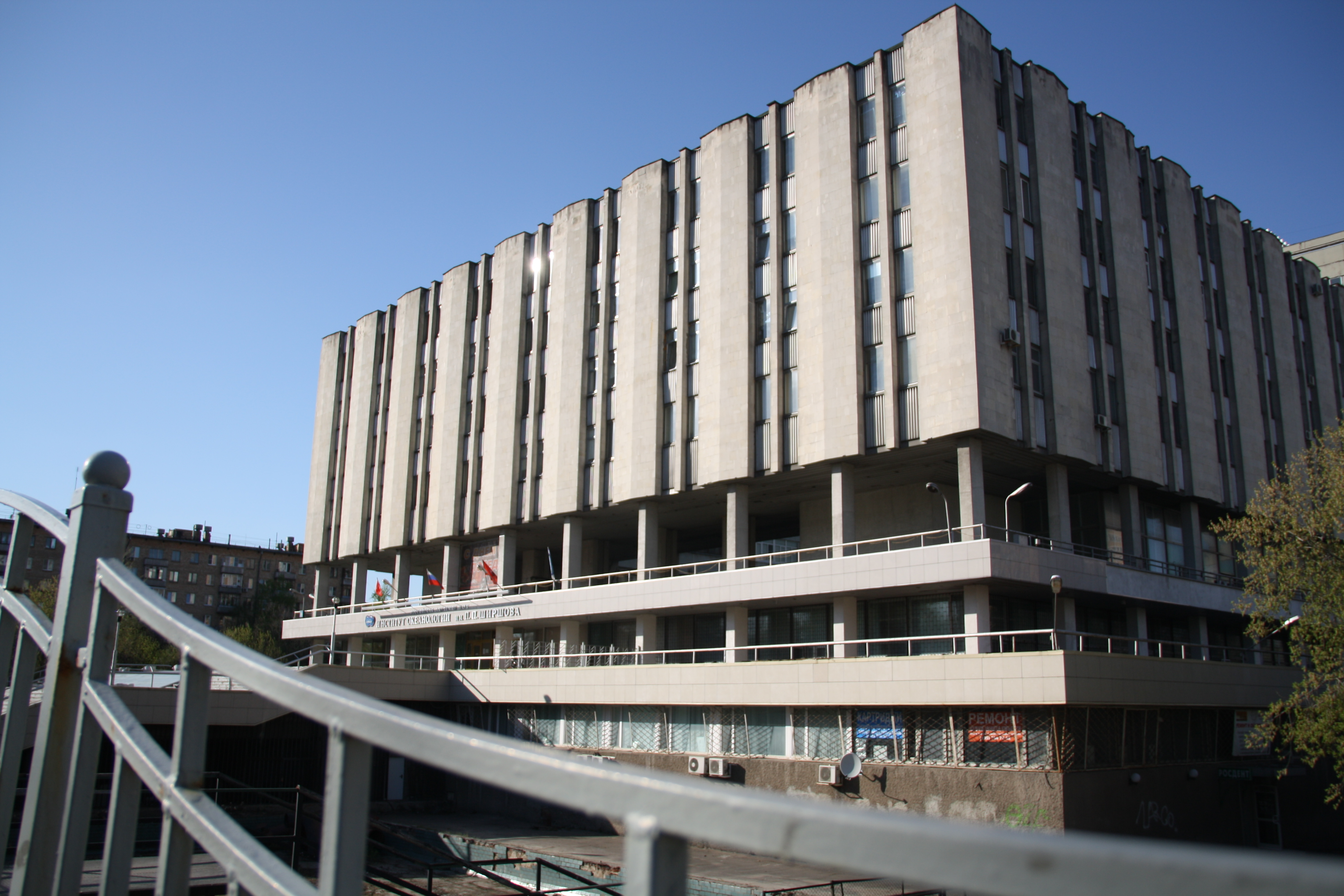 Институт океанографии